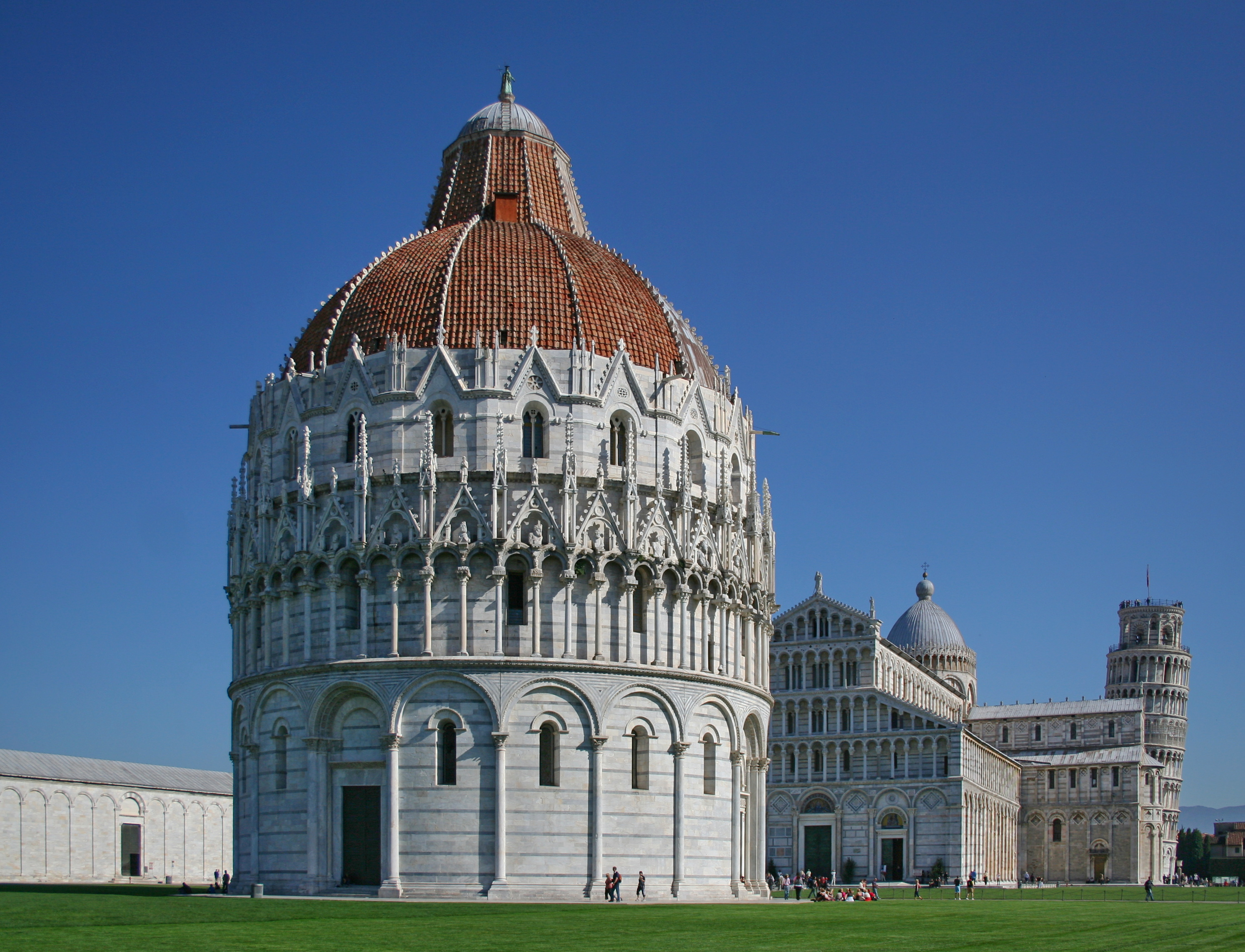 A photograph taken of the Campo dei Miracoli in Pisa.